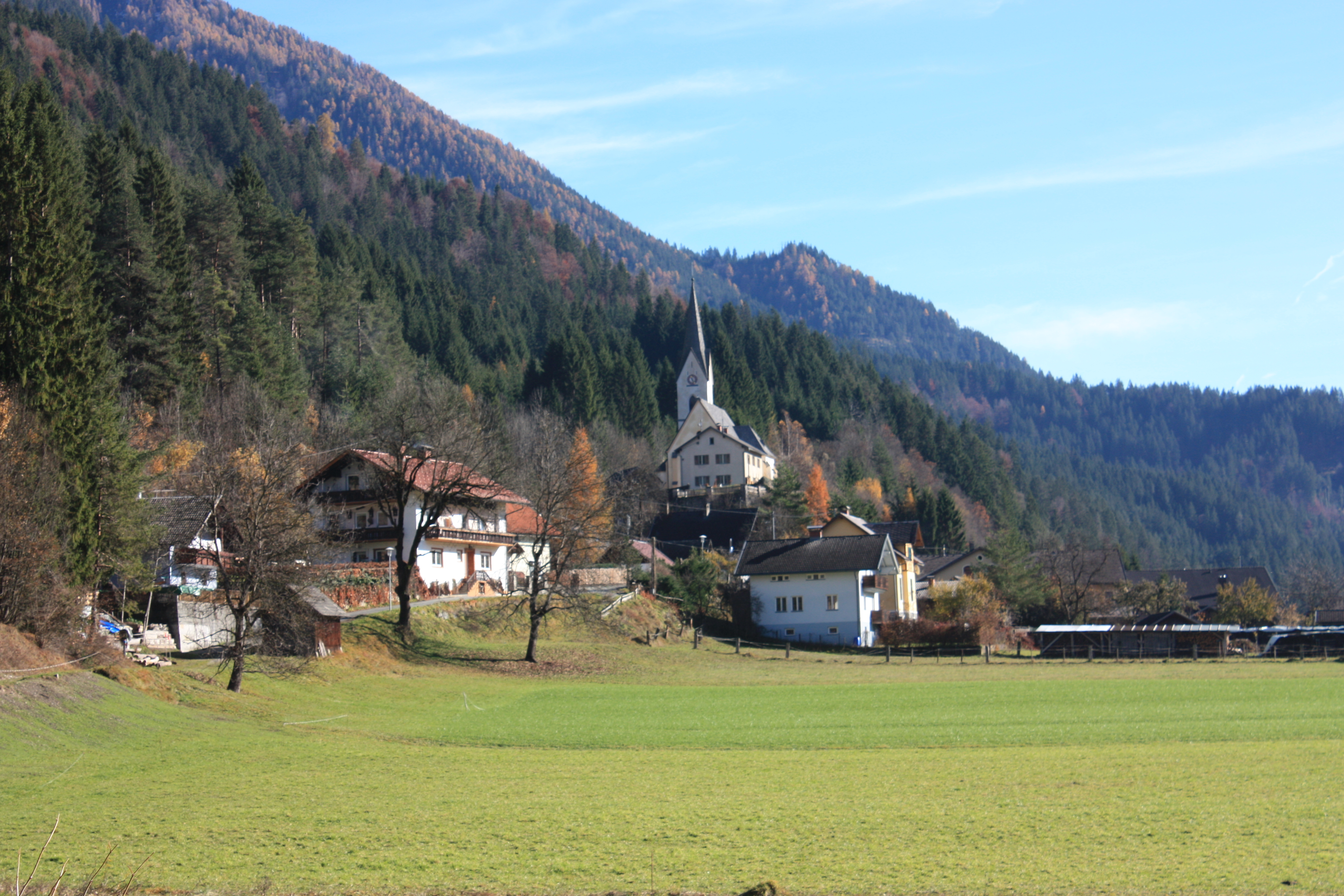 Sankt Lorenzen in the community Gitschtal